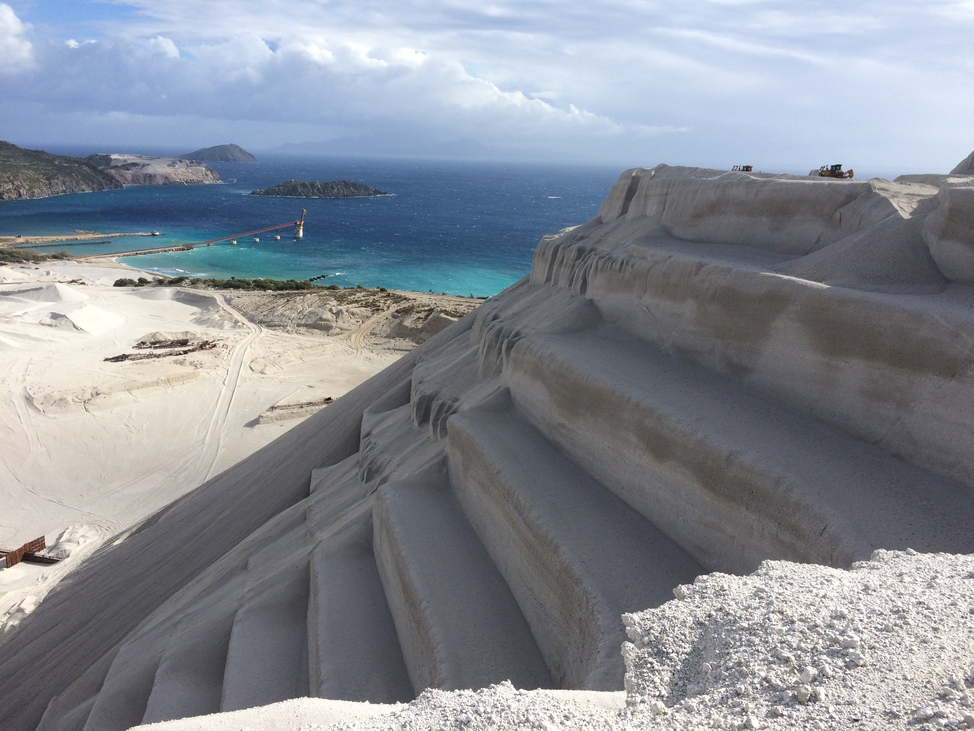 Yiali island, pumice mining, Greece.